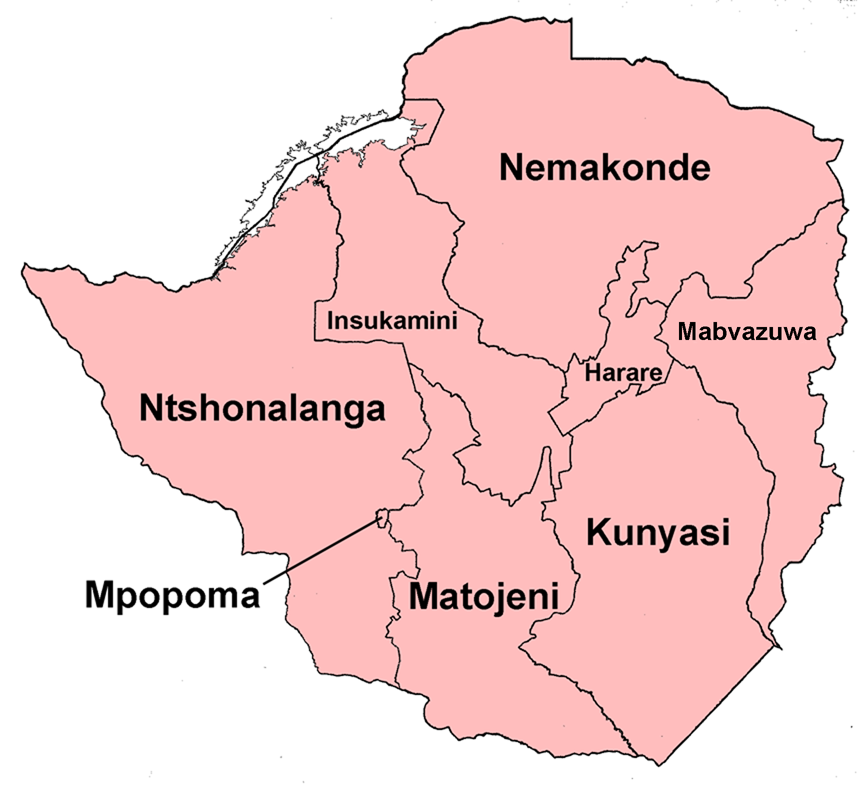 African roll constituencies in Rhodesia, 1970 delimitation. Used at the 1970, 1974, and 1977 general elections.